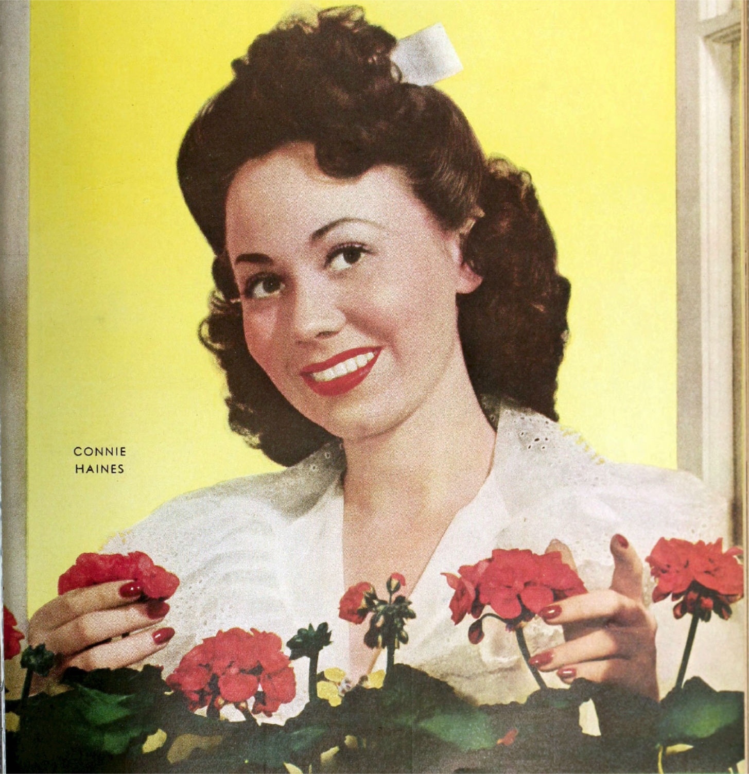 Photo of Connie Haines from the cover of June 1943 Radio Mirror. A search for renewals was done for renewals in perioodicals for the years 1970 and 1971. There were no listings for the title Radio Mirror--there's no evidence of continuing copyright on the magazine.